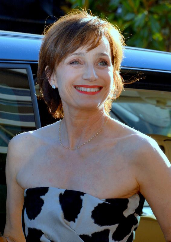 Kristin Scott Thomas at the Cannes film festival